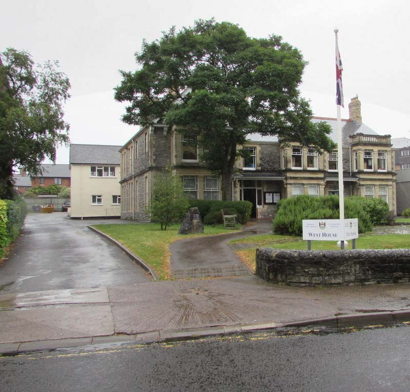 West House, Penarth, Vale of Glamorgan - headquarters for Penarth Town Council and used as a Registry Office for births, marriages and deaths